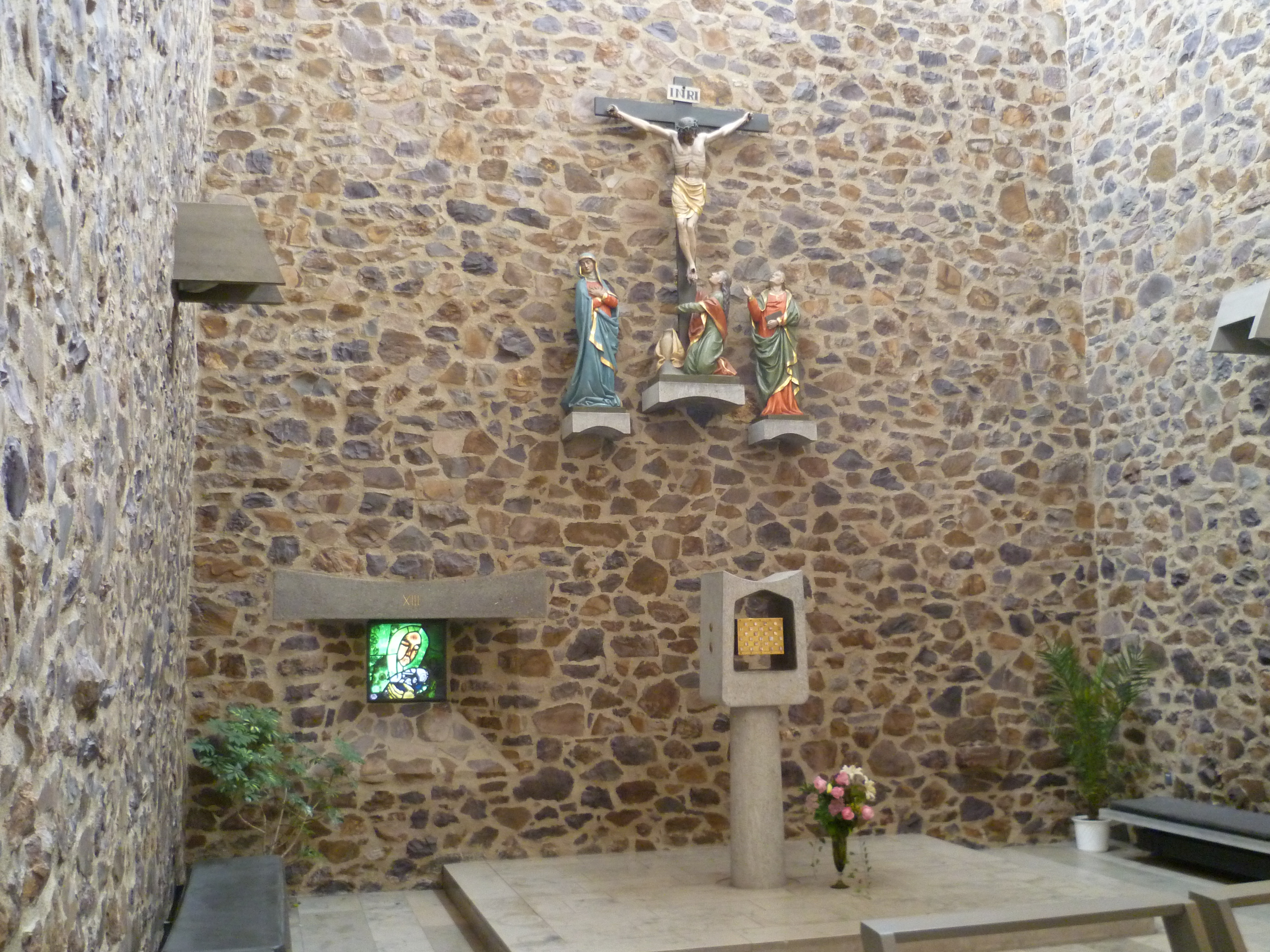 Catholic church St. Martin in Idstein, Sacrementary chapel with the neo-gothic crucifixion scene